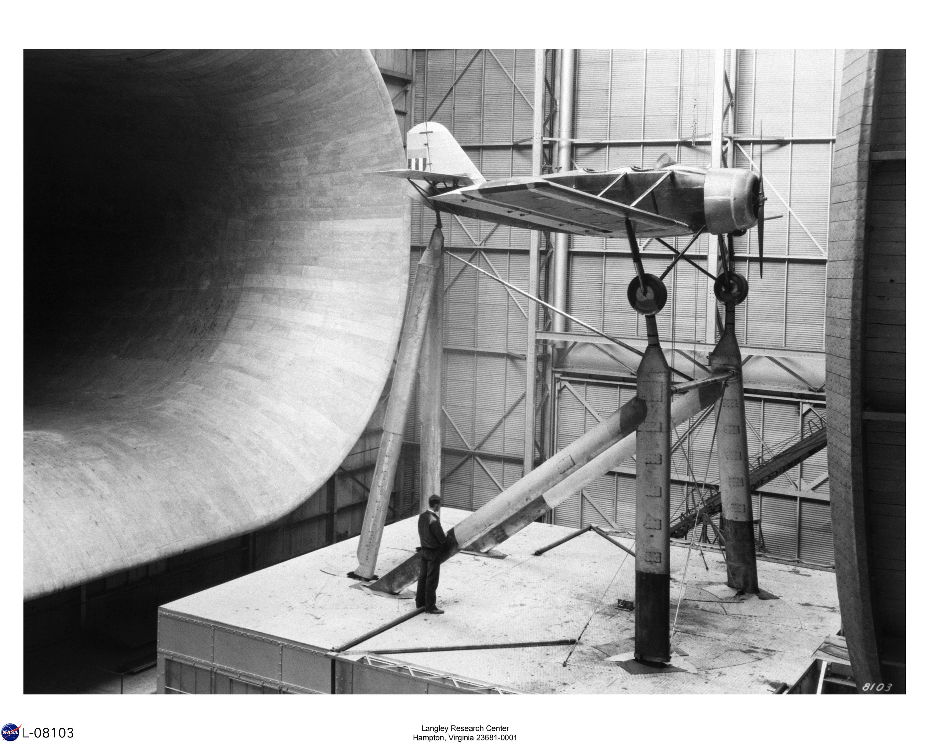 McDonnell Doodlebug with NACA Cowling and Gap, January 20, 1933 in a wind tunnel test